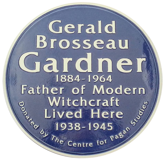 plaque to Gerald Brosseau Gardner